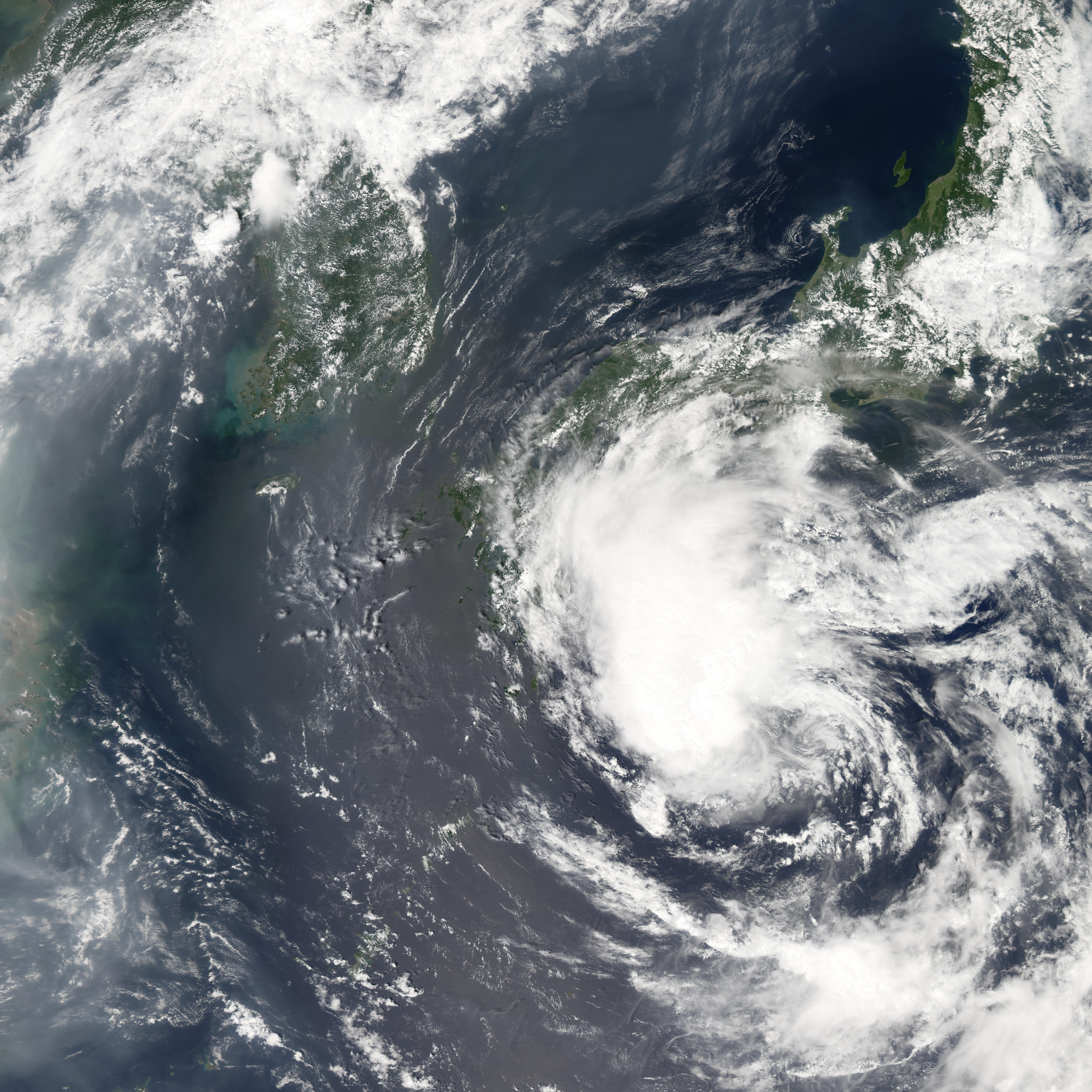 Tropical Storm Wukong formed in the western Pacific on August 12, 2006 as a tropical depression. Within a day, it had become organized enough to be classified as a tropical storm and earn its name. Wukong is the name of the Monkey King in a Chinese legend, “Journey to the West.” On August 17, the storm came ashore on the island of Kyushu at the southern end of the Japanese Islands. As of August 17, it was expected to bring rain and wind to southern Japan and southern Korea over the next few days. This photo-like image was acquired by the Moderate Resolution Imaging Spectroradiometer (MODIS) on the Aqua satellite on August 16, 2006, at 1:30 p.m. local time (04:30 UTC). Tropical Storm Wukong at the time of this image was a very large system with a well-defined but unstructured ball of clouds. In the large format image which shows a wider area around the storm, clear air can be seen around the storm, which is pushing smog and dust-laden air from China to the north and east of the storm system. Tropical Storm Wukong had sustained winds of around 90 kilometers per hour (55 miles per hour), according to the University of Hawaii’s Tropical Storm information center.